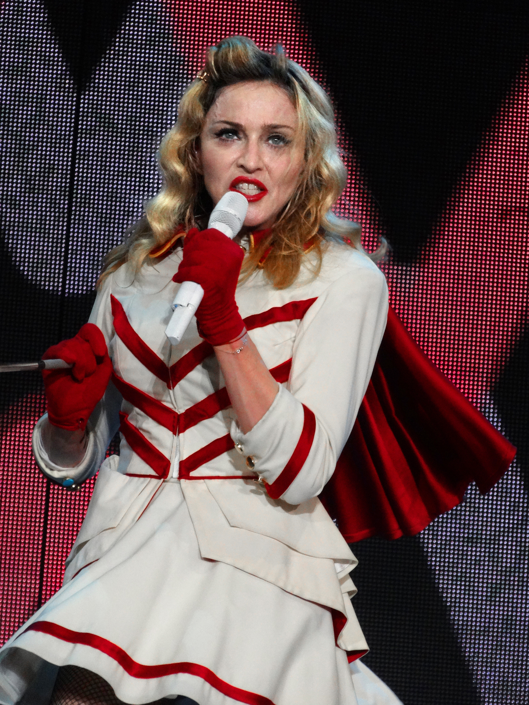 Madonna during her concert in Nice as part of her MDNA Tour on August 21, 2012.